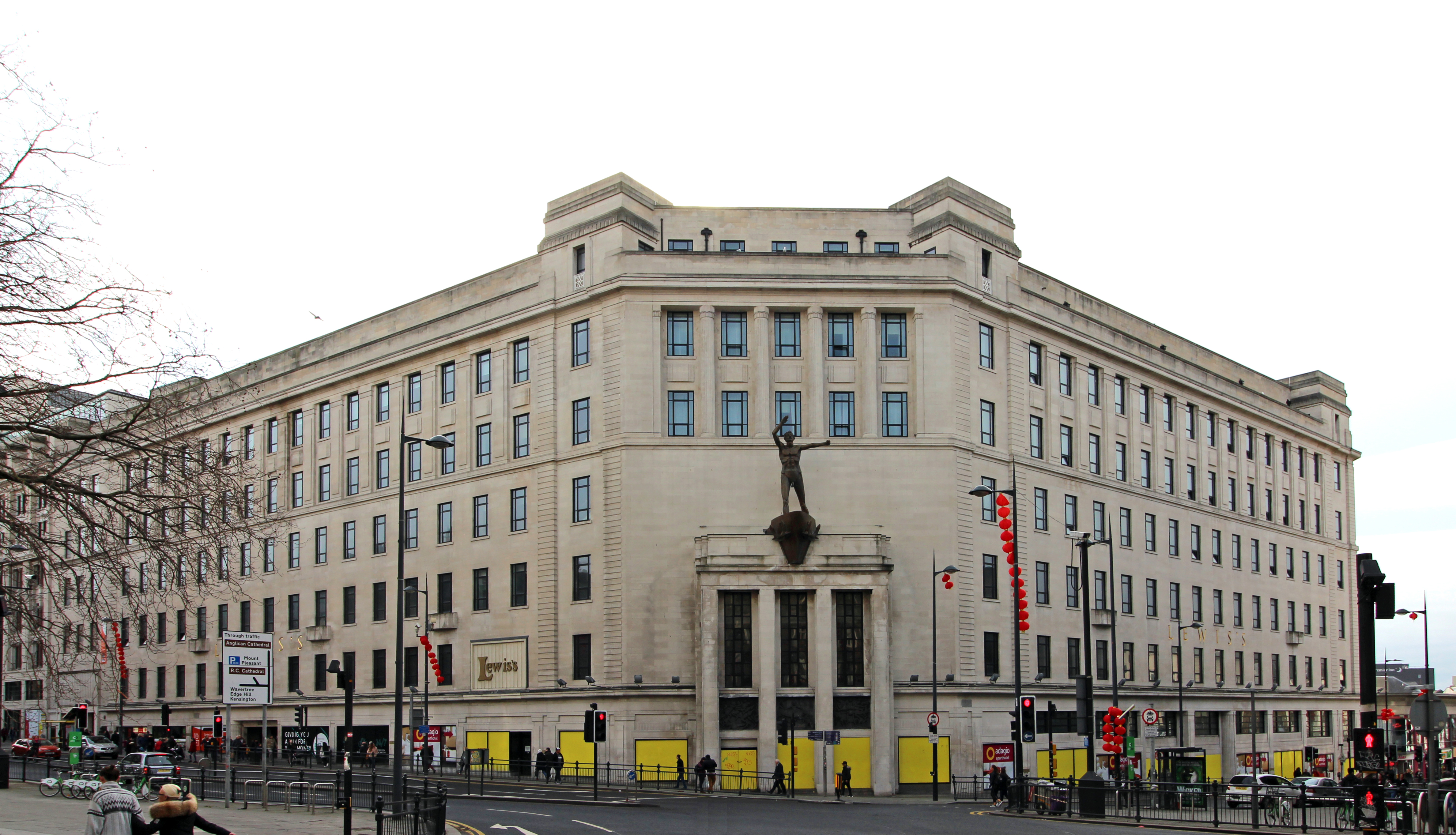 Corner of this Grade II listed department store, built late 1940s. View from bottom of Copperas Hill.